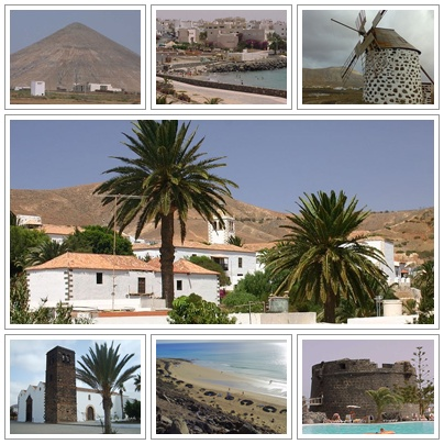 Windmill in La Oliva at Fuerteventura Castillo de Caleta de Fuste, Antigua, Fuerteventura